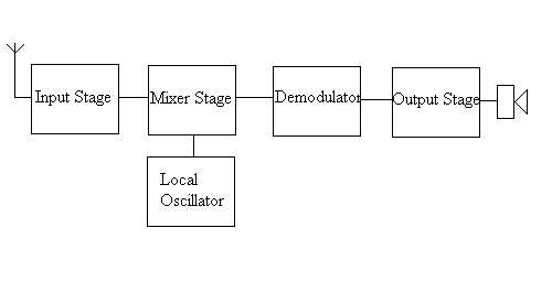 Radio Block Schematics